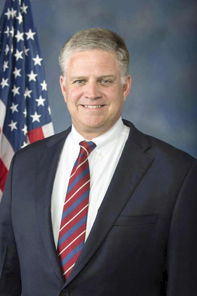 Drew Ferguson official photo, 115th Congress